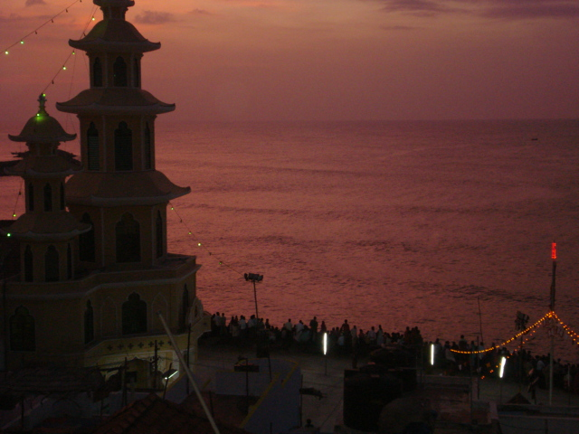 sun rise of arokiyanather alyam